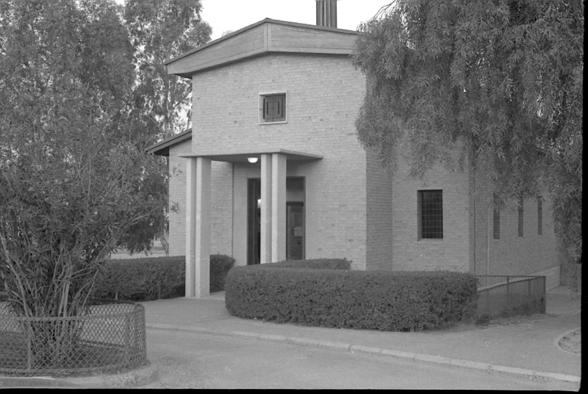 Exterior of the Christian Church at Ahmadi, Kuwait, in 1966.